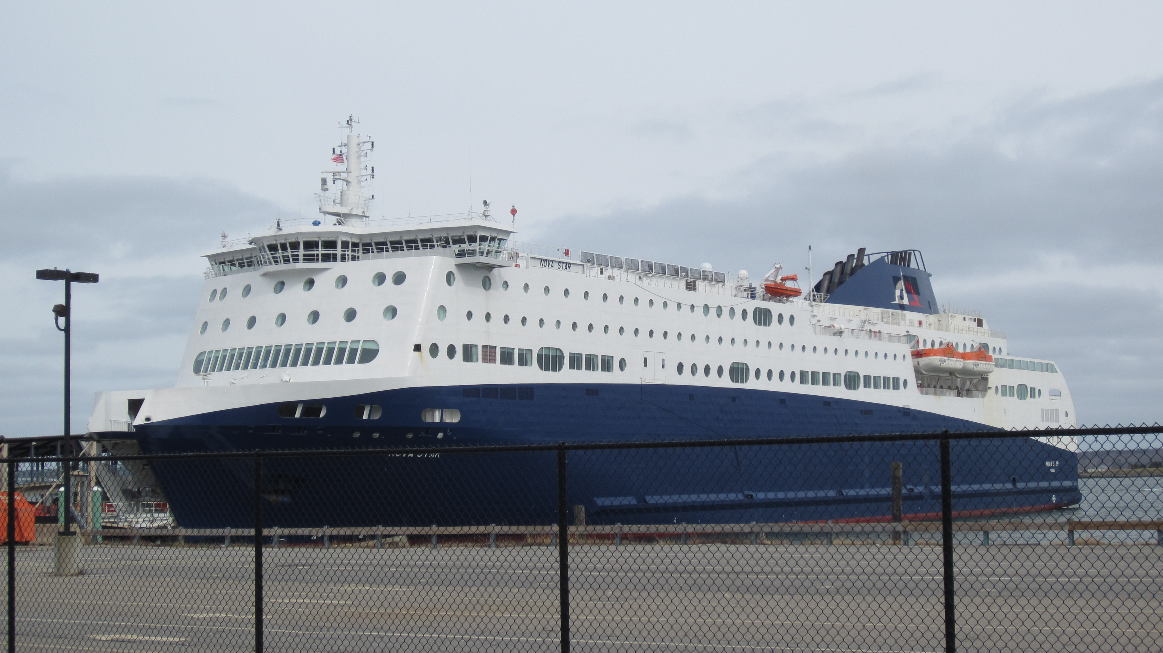 Nova Star docked in Portland, Maine